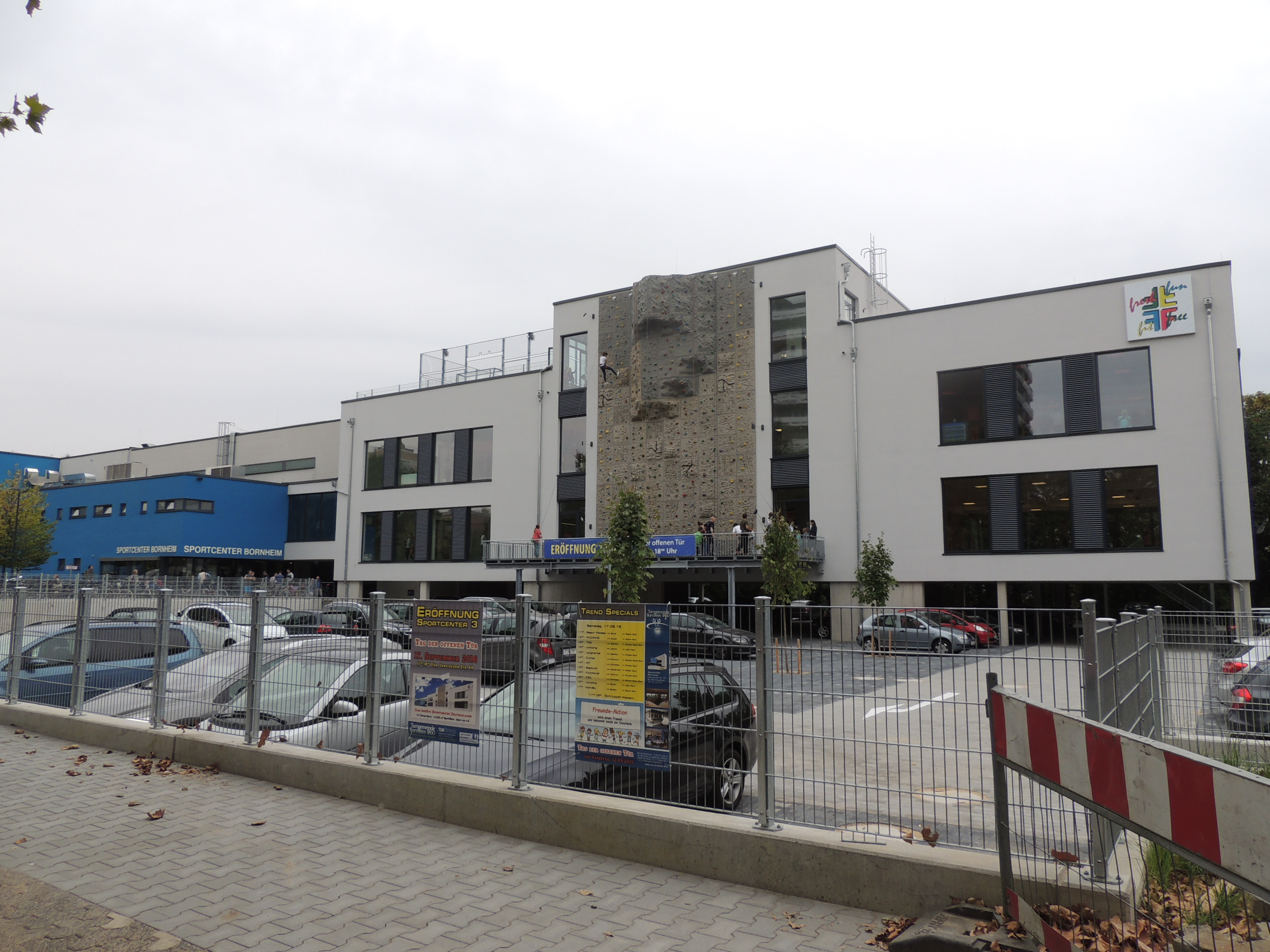 New gymnasium of the Turngemeinde Bornheim in the Inheidener Street in Frankfurt am Main-Bornheim